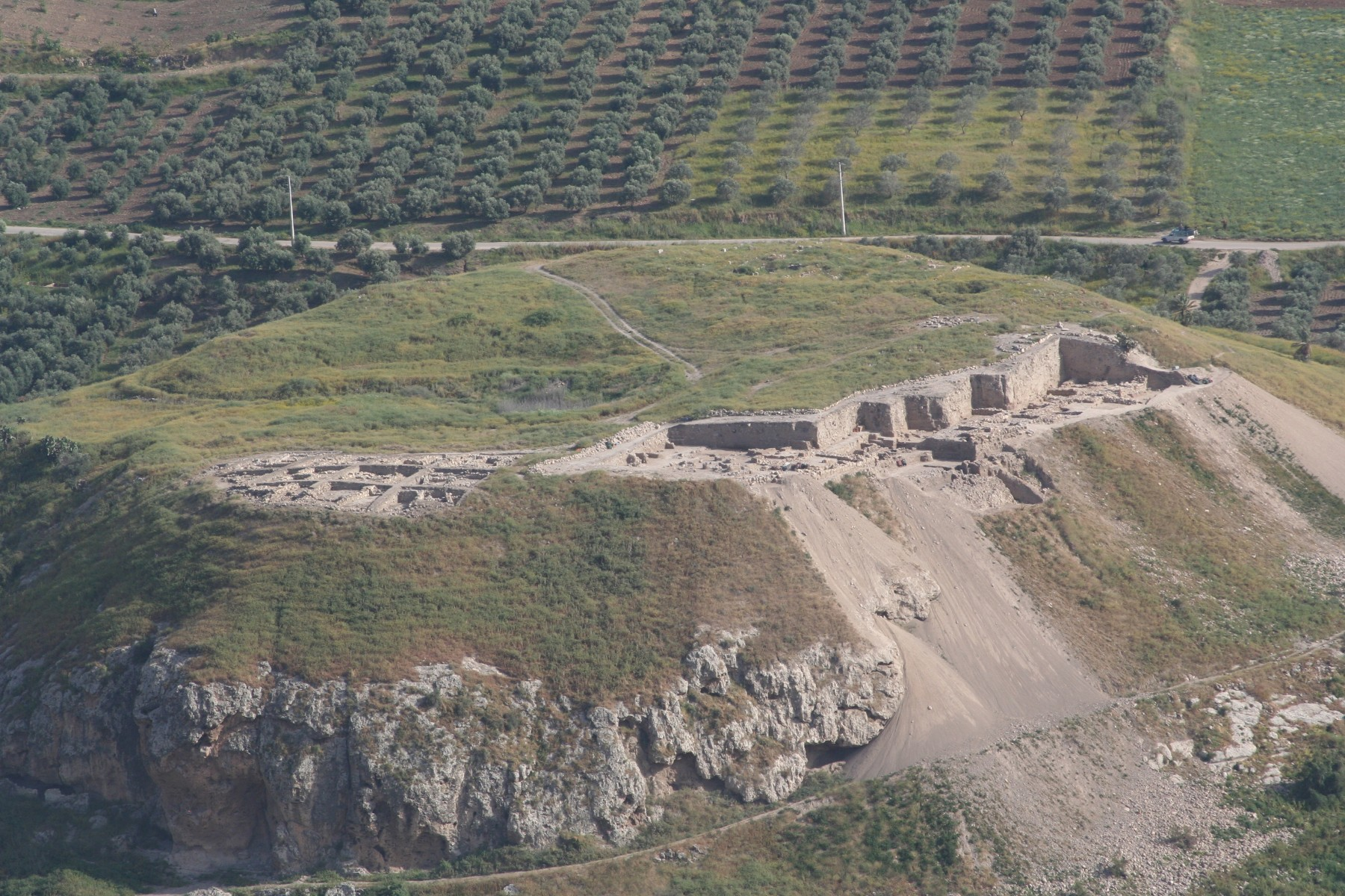 Tall Zira'a, Jordan, 2010 Spring Excavation